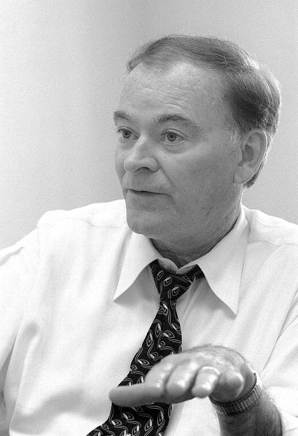 FRANK JORDAN 15OCT99/ photo by NANCY WONG SAN FRANCISCO MAYORAL CANDIDATE FRANK JORDAN FOR ELECTION 1999 AT HIS CAMPAIGN OFFICE AT 2409-19TH AVENUE AT TARAVAL IN SAN FRANCISCO. JORDAN HELD AN OPEN HOUSE AT THE OFFICE FROM NOON TO 2PM.